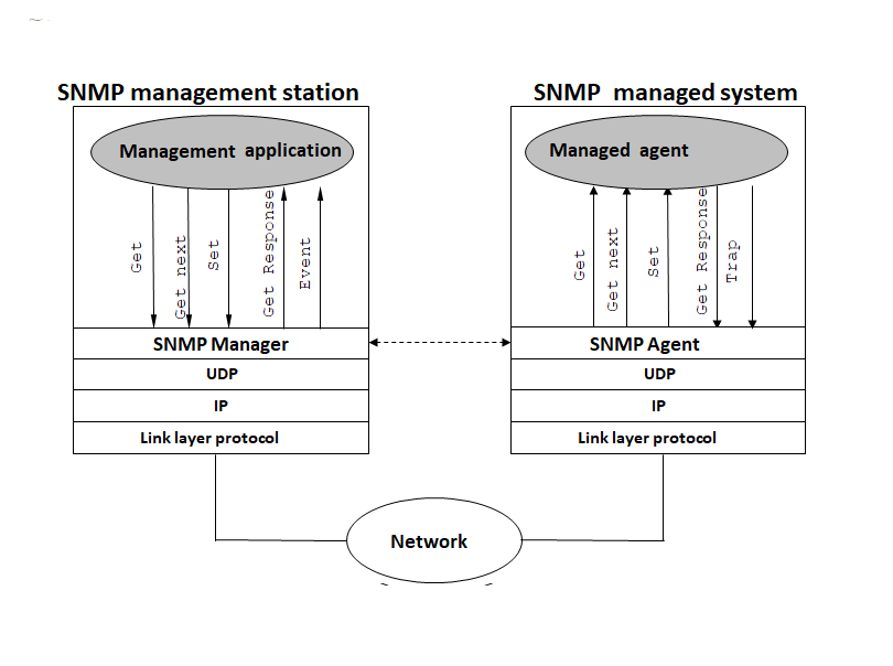 Snmp architecture